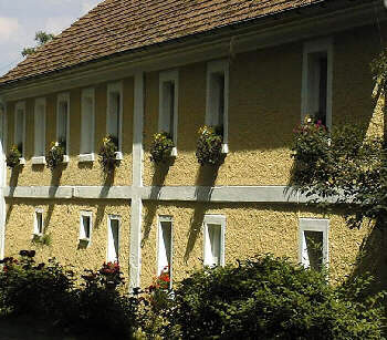 Old farm at Querenbach, Waldsassen (Germany)